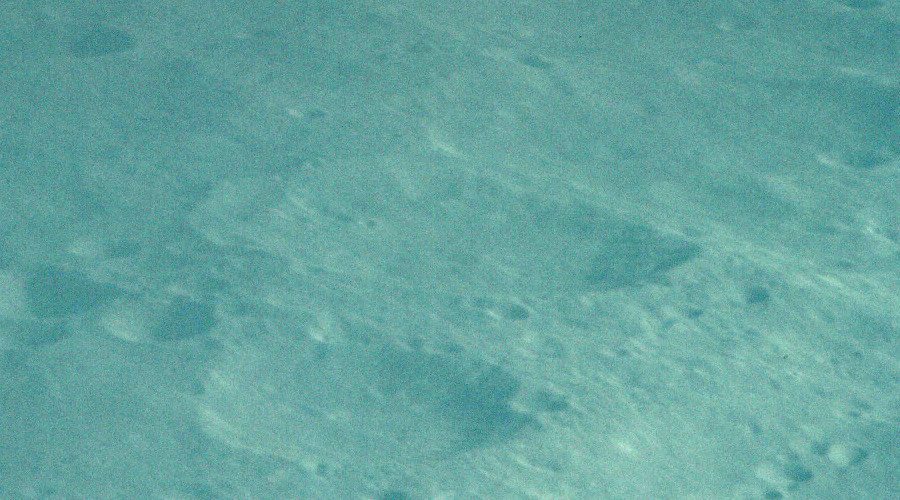 Oblique view of Denning crater, on the far side of the moon, facing south. Brightness and contrast greatly adjusted from the dark original.